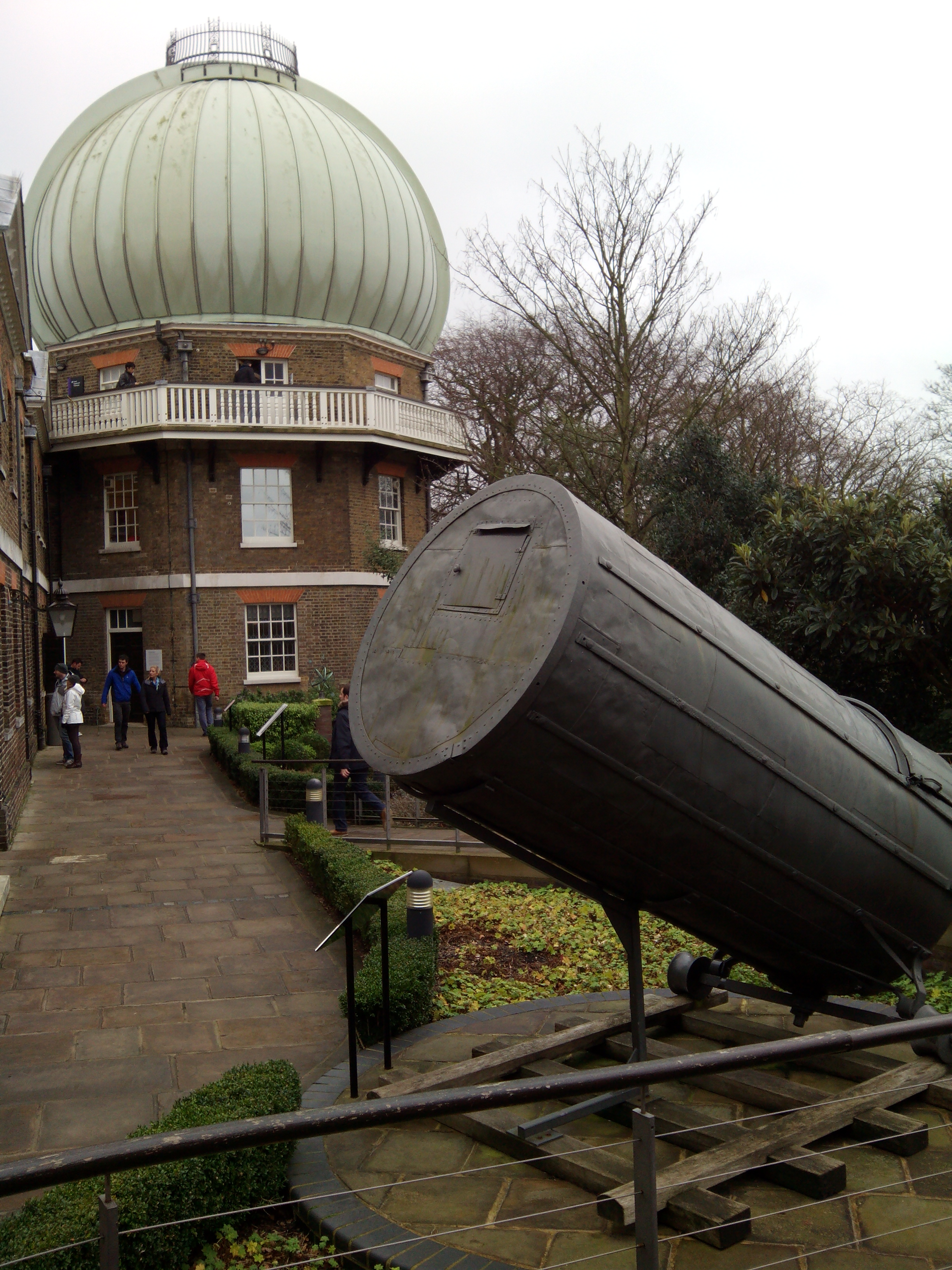 28-inch telescope, Royal Observatory